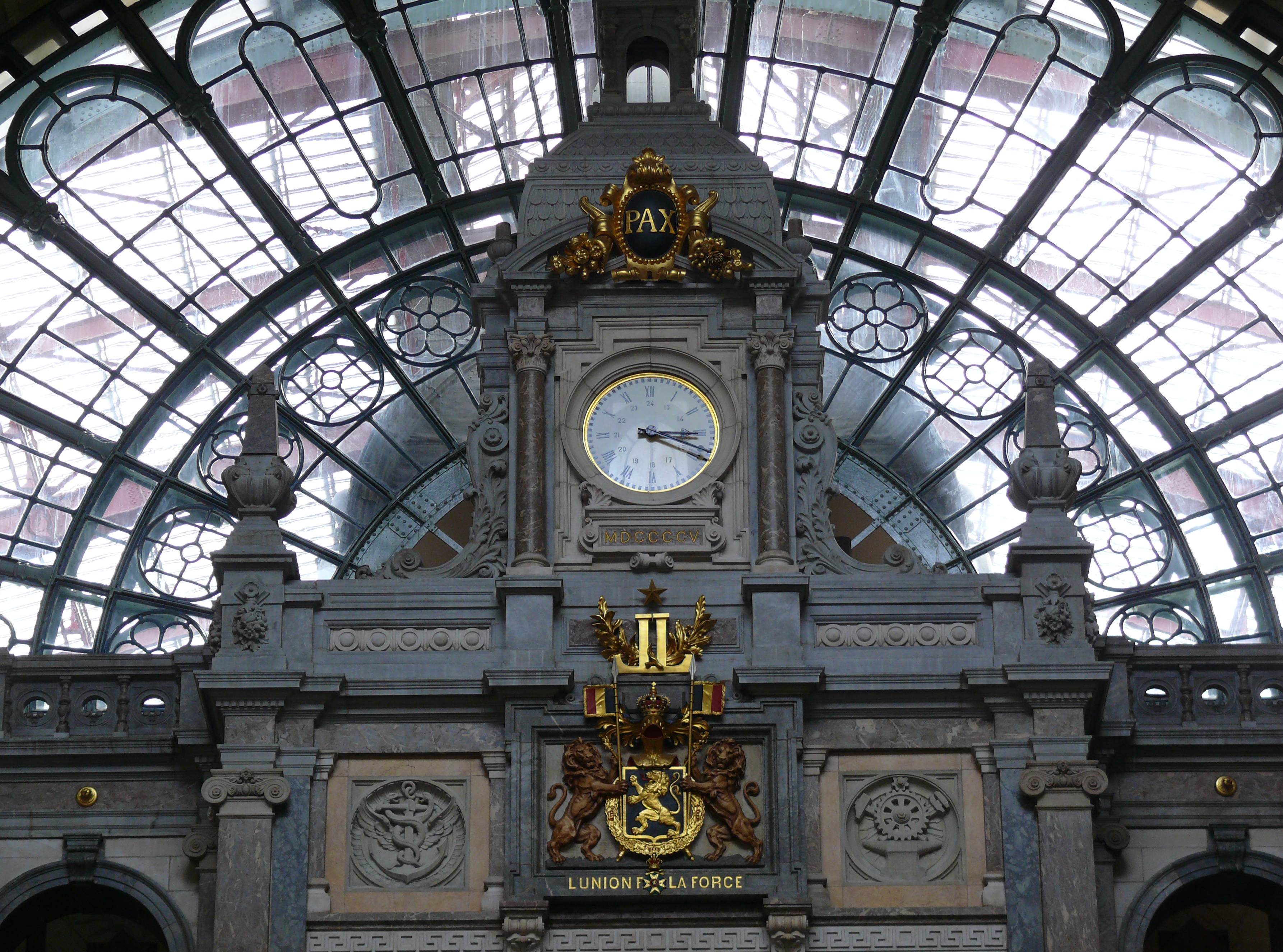 Interior of Antwerp Central Station